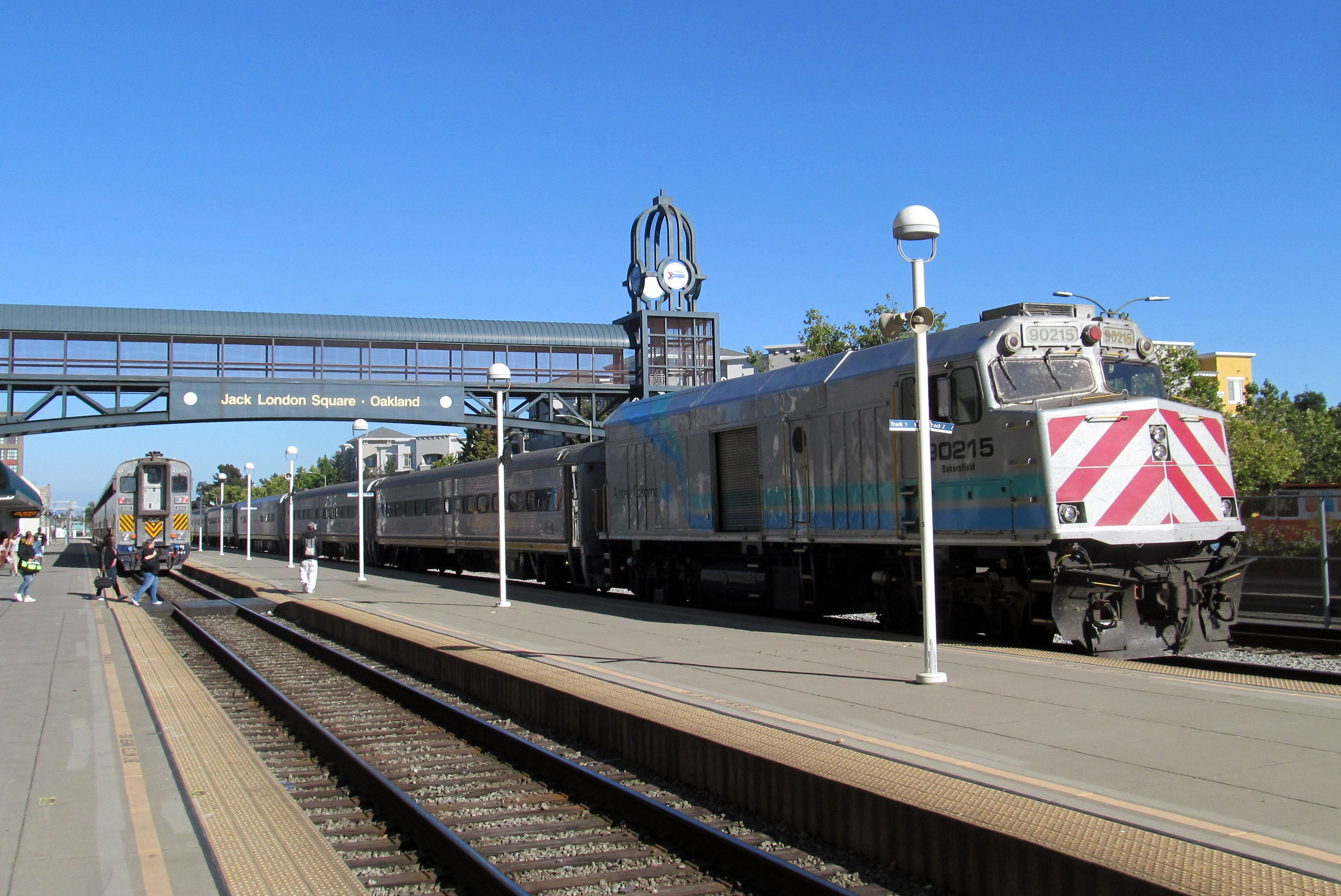 A San Joaquin train with Comet IB cars at Jack London Square station in July 2017. A deadheading trainset is at left.